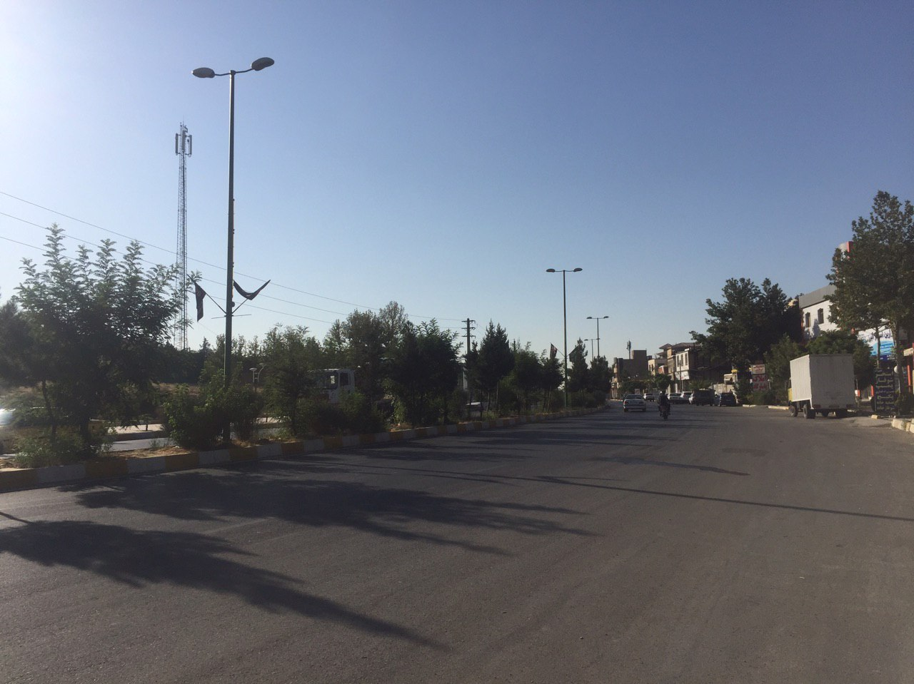 The only main street in Kordan village.